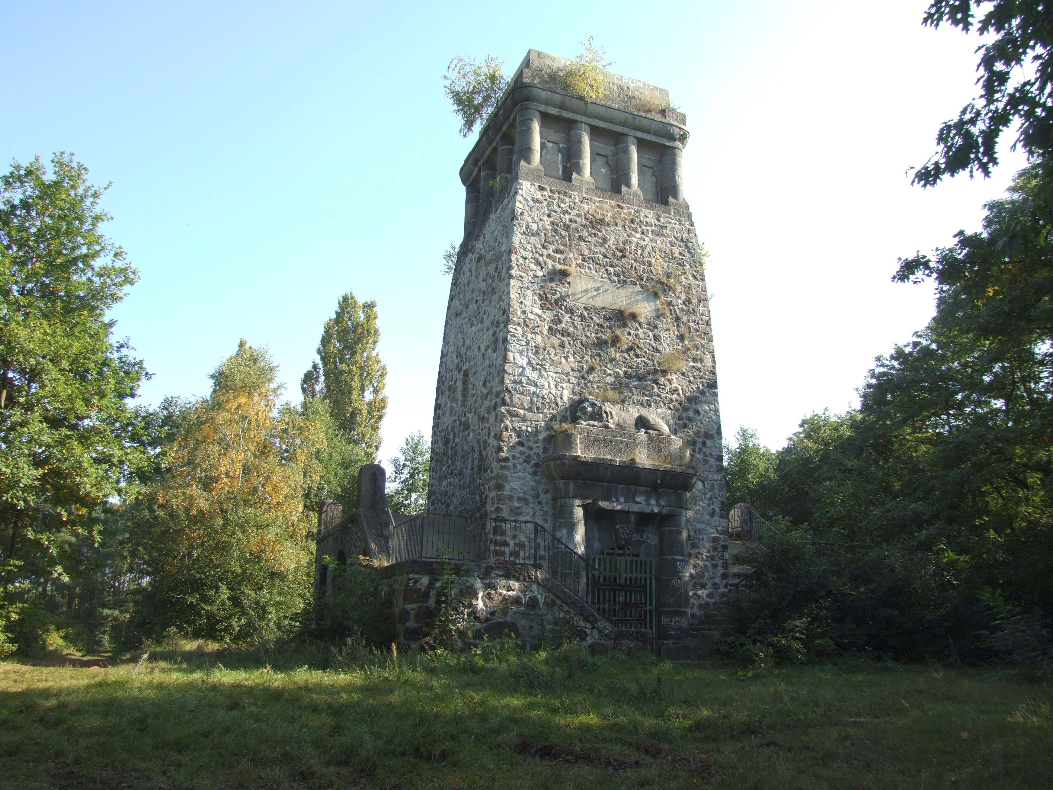 Bismarck Tower in Żagań (Sagan)